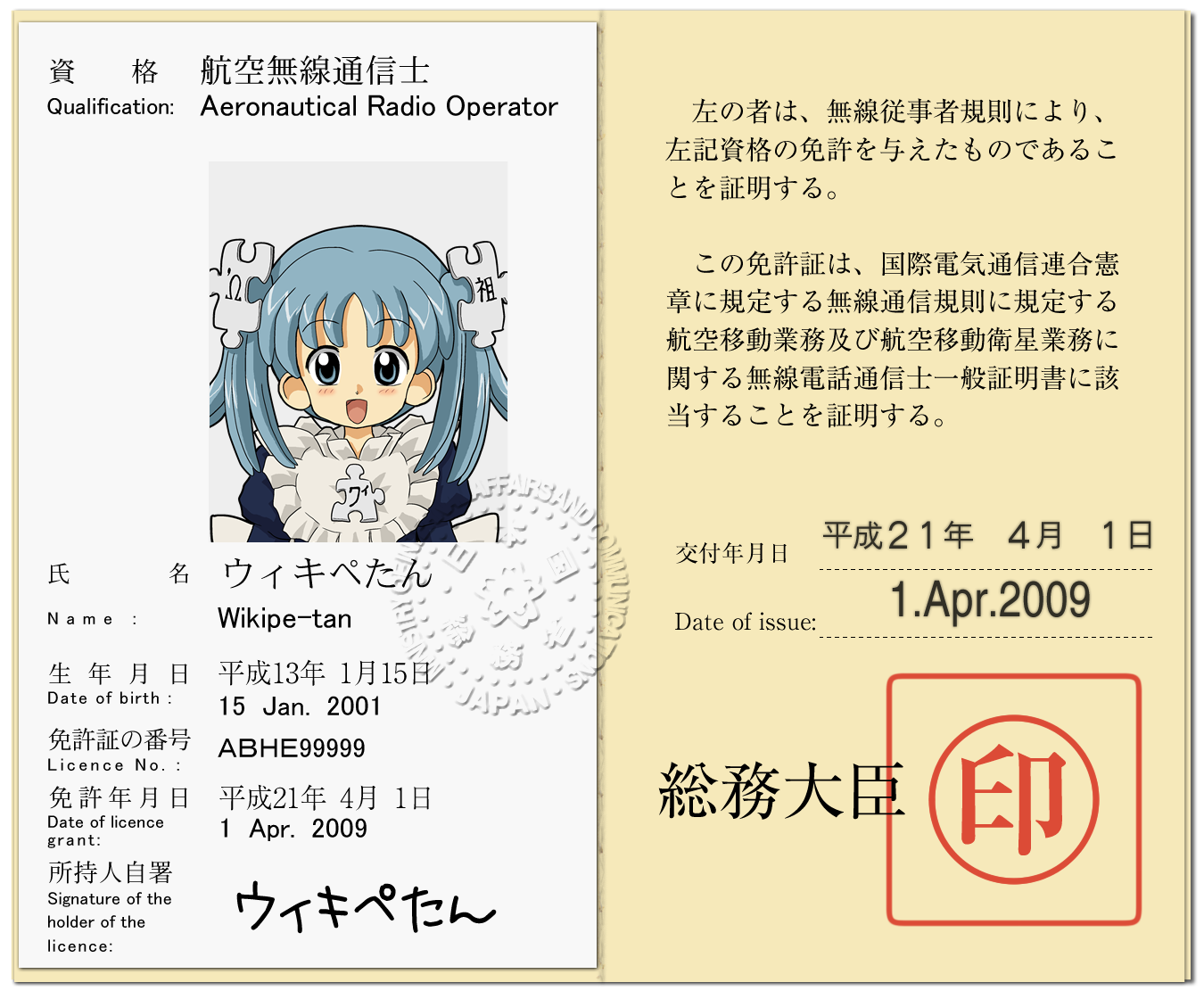 An example of Japanese License of Aeronautical Radio Operator